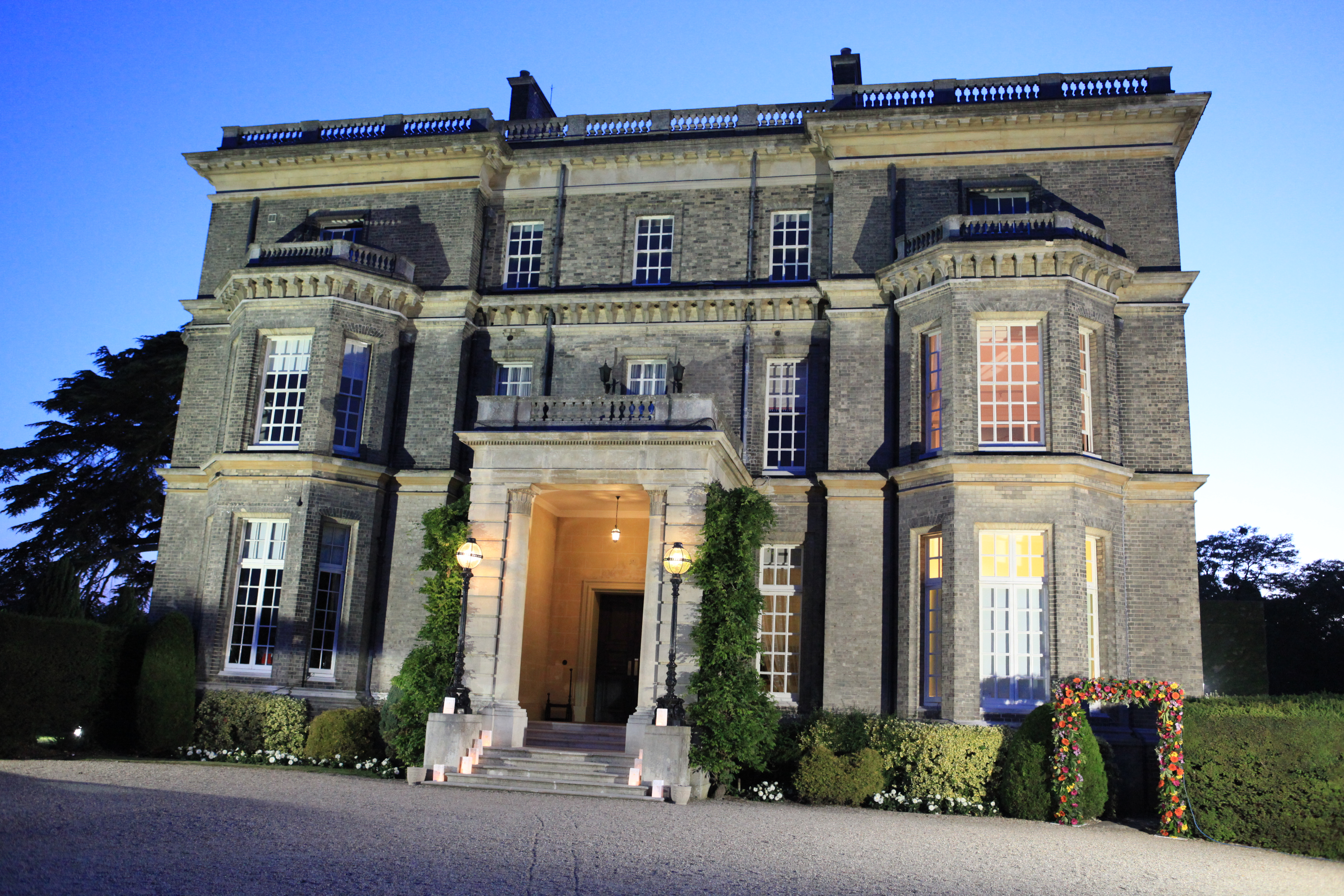 Hedsor House, Buckinghamshire